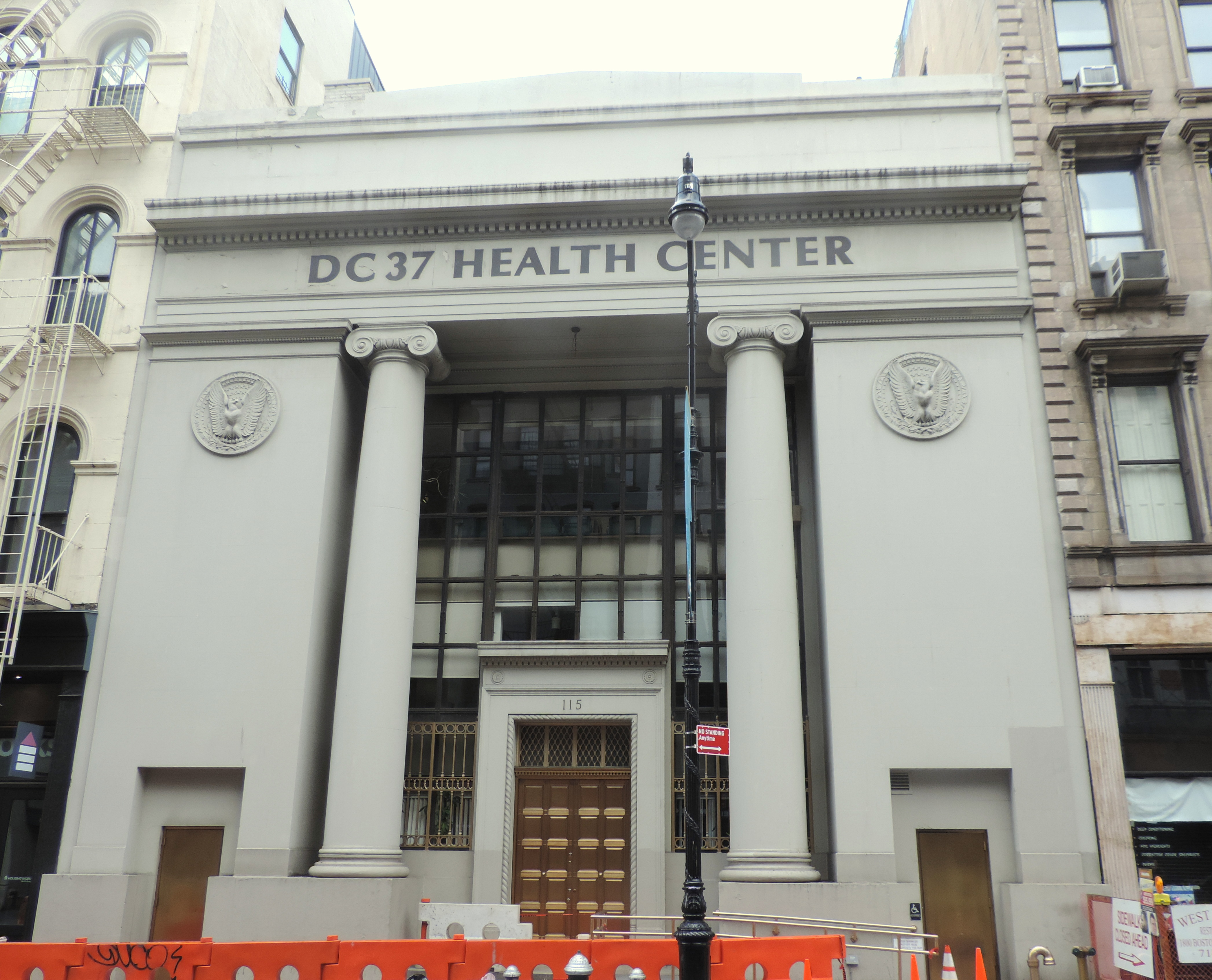 Looking north at DC 37 Health Center